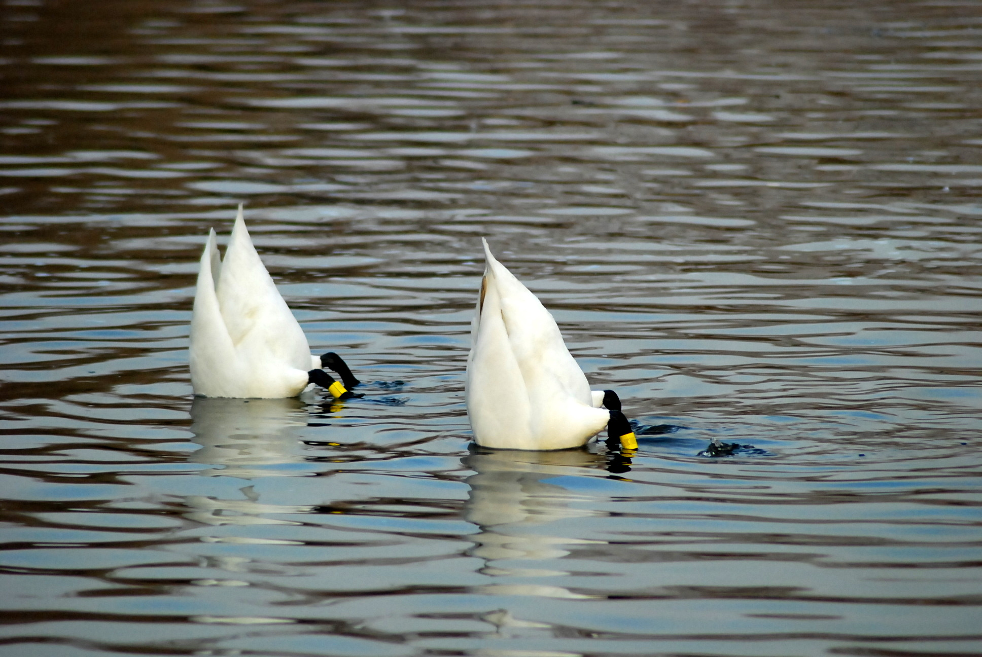 Cygnus cygnus eats water plant, at Beijing zoo